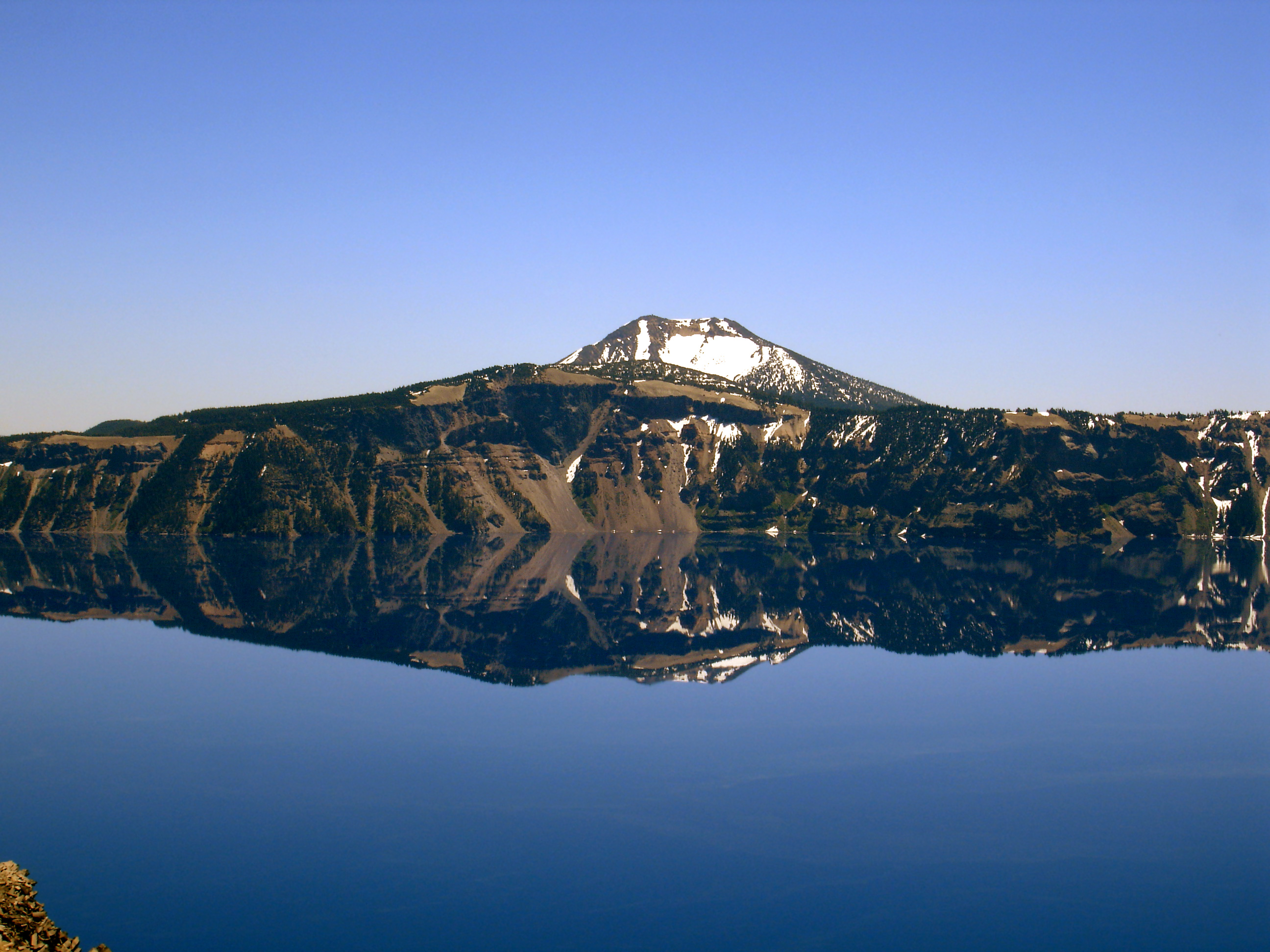 Crater Lake